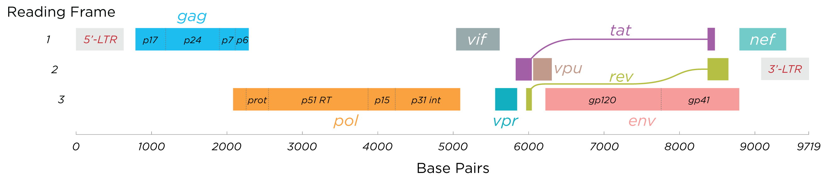 Structure of the HIV-1 genome. It has a size of roughly 10.000 base pairs and consists of nine genes, some of which are overlapping.